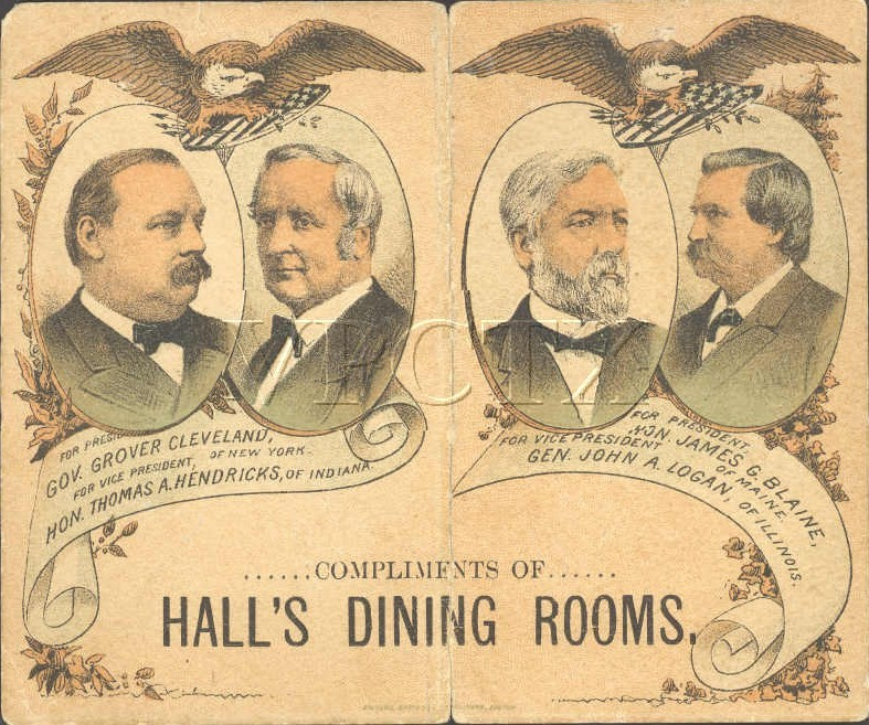 Dance card (illustrated cover side) depicting Democratic and Republican candidates (Grover Cleveland, James G. Blaine, etc.) in the United States presidential election; store Web page states: "Dance card compliments of 'Hall's Dining Rooms'. The card folds and the inside provides the order of dances on both sides. Images of the presidential and vice president candidates featured on the front and back covers. [...] Size 4 1/2" x 5 3/8"" For inside view of card, with dances listed, see Image:DanceCardInsideView1884.jpg